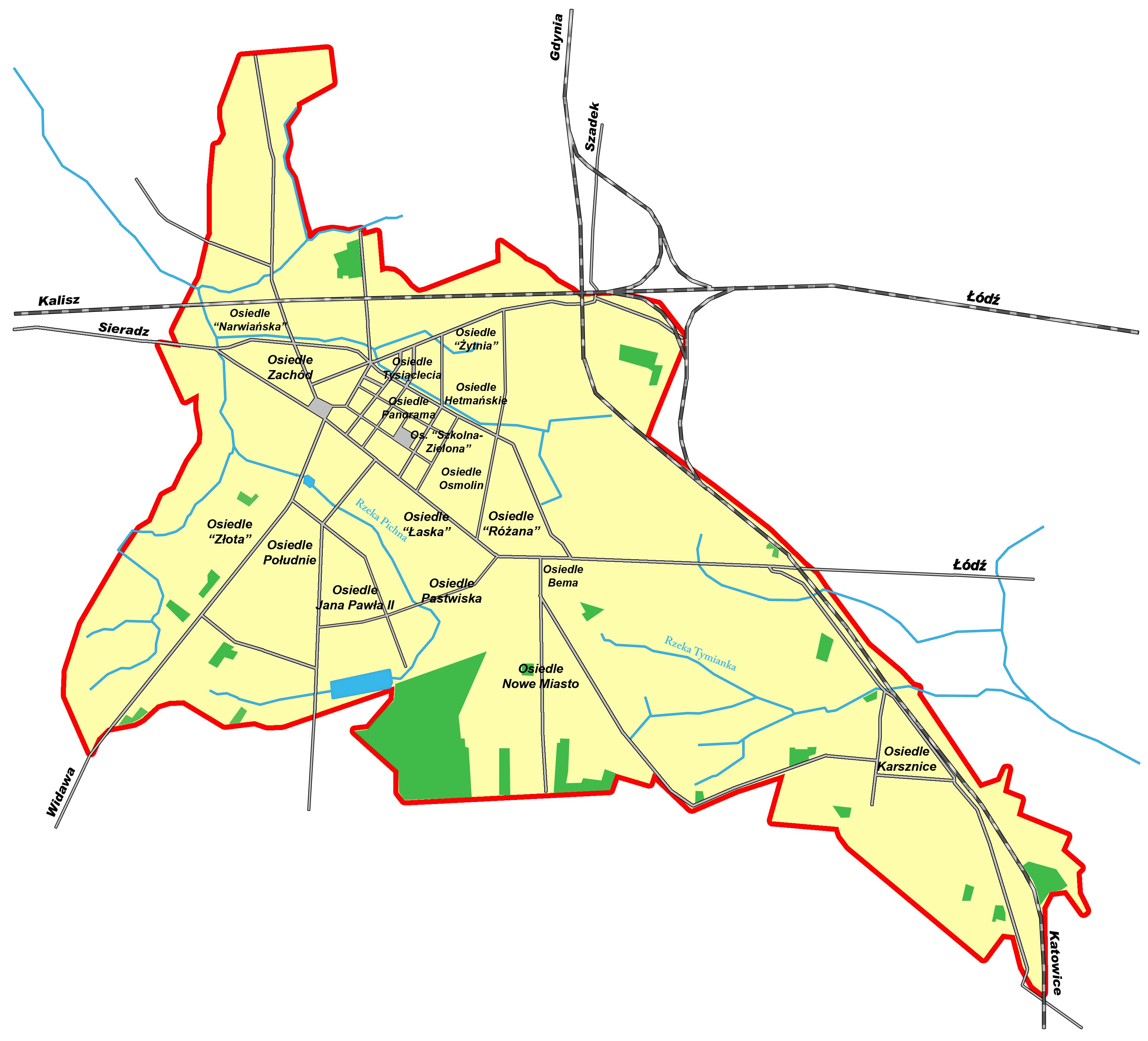 Current map of Zduńska Wola